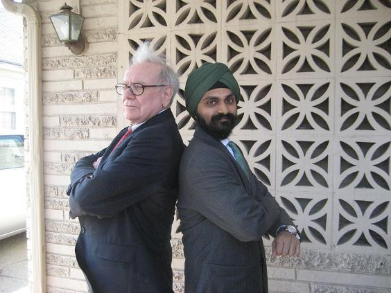 Picture of Manpreet Singh & Warren Buffett afer lunch in Omaha